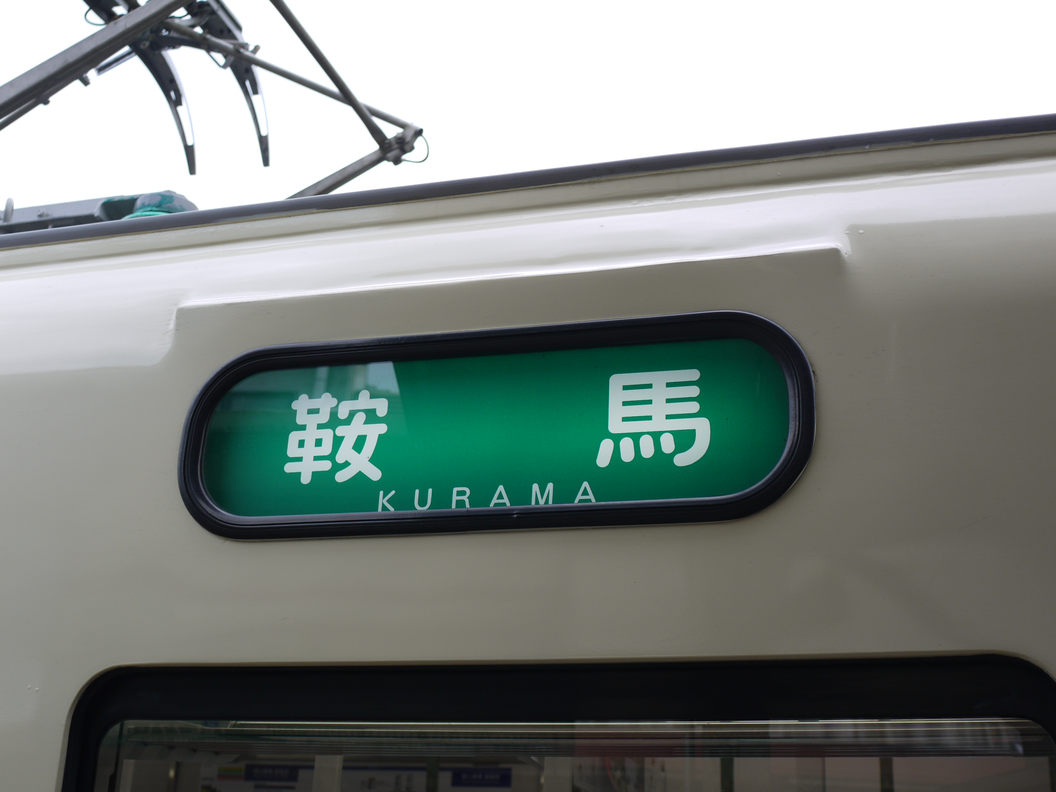 Train destination indicator on the side of Eizan Railway Deo 812